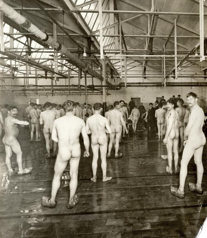 The Great War. First World War. French and English prisoners of war who came back from Germany being desinfected in a factory hall in Twente, Holland / Netherlands, 1919.